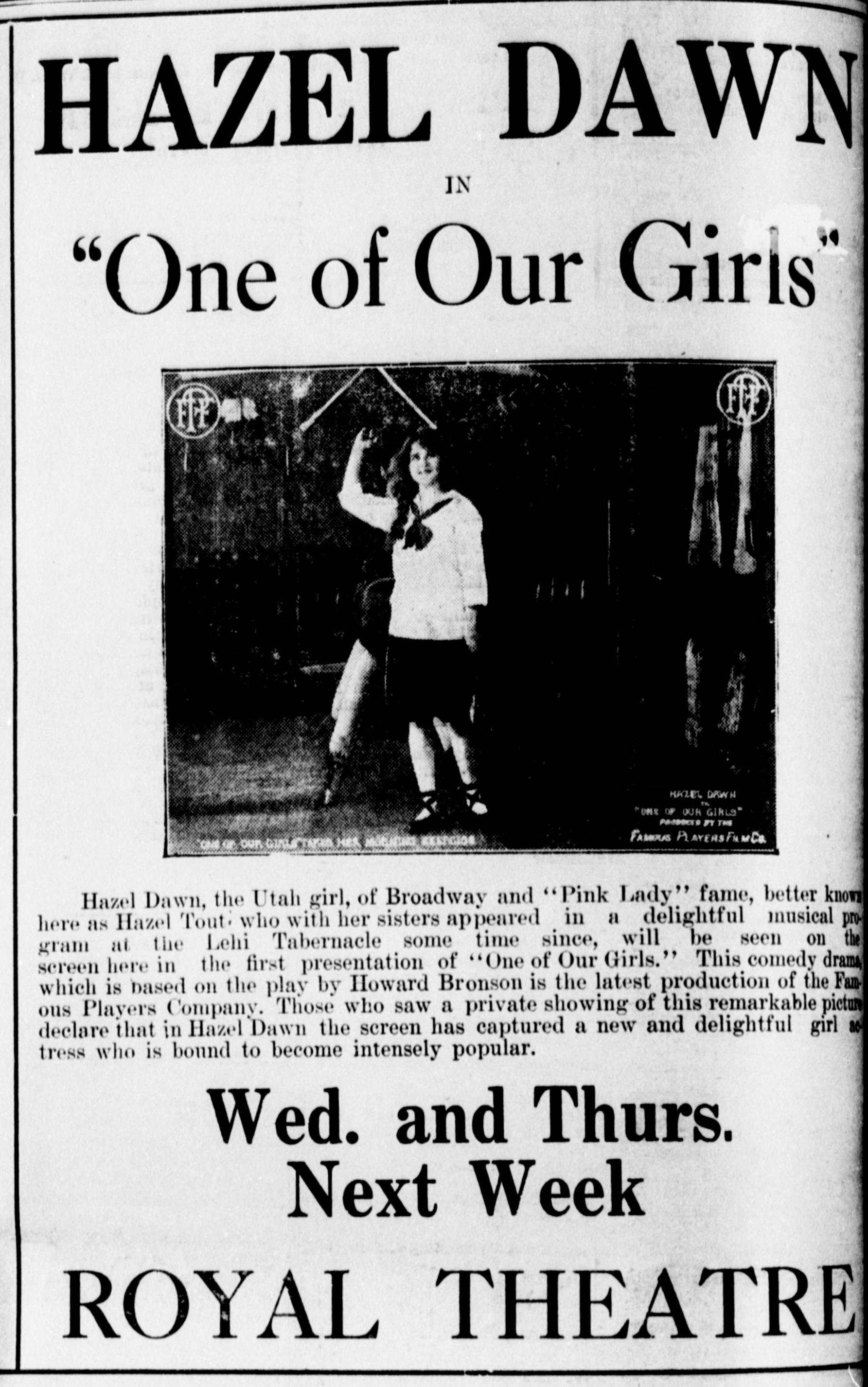 One of Our Girls is a lost 1914 silent film drama directed by Thomas N. Heffron and starring Hazel Dawn. This is a newspaper advertisement for the film.